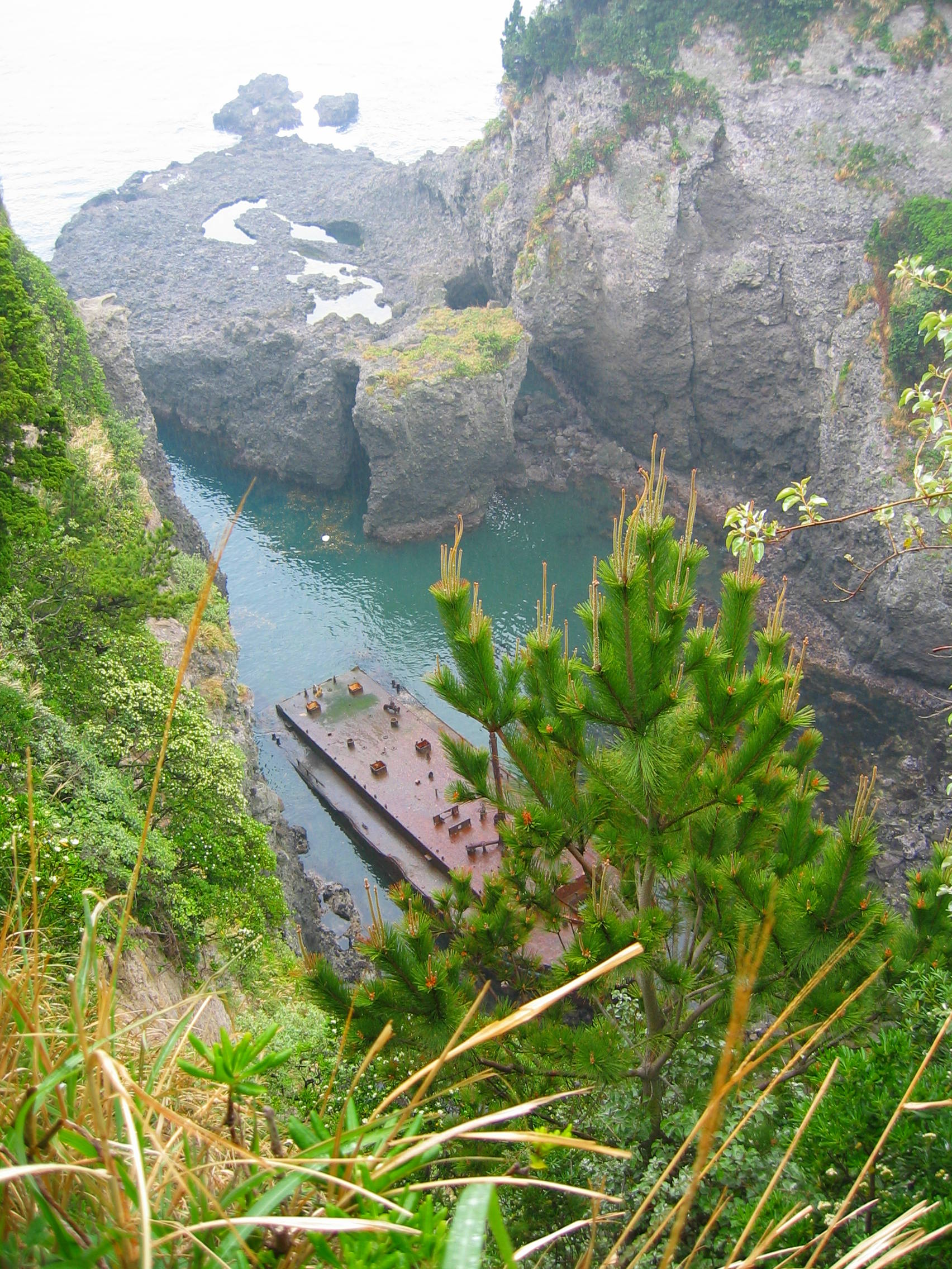 Minamiizu town, Shizuoka prefecture, Japan.